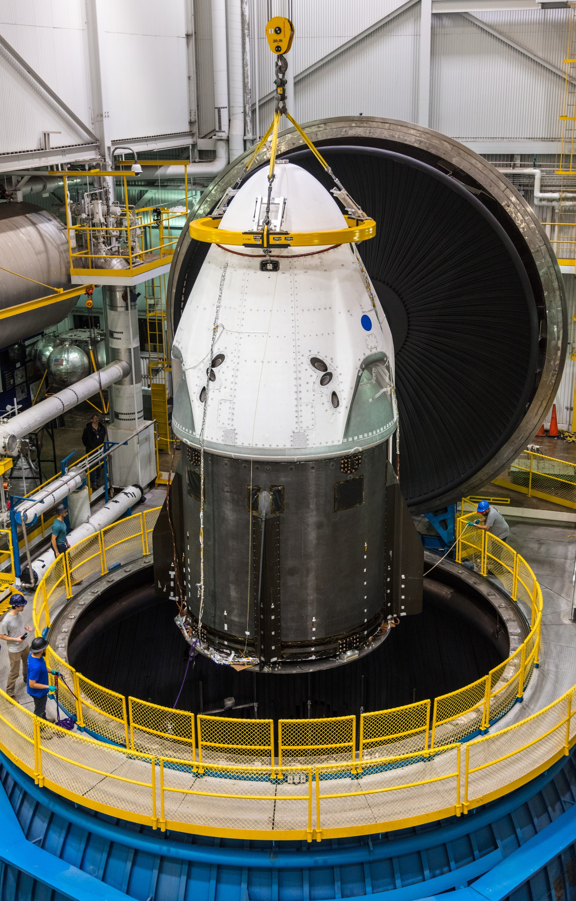 SpaceX’s Crew Dragon is at NASA’s Plum Brook Station in Ohio, ready to undergo testing in the Reverberant Acoustic Test Facility—the world’s largest thermal vacuum chamber. The chamber will allow SpaceX and NASA to verify Crew Dragon’s ability to withstand the extreme temperatures and vacuum of space. This is the spacecraft that SpaceX will fly during its Demonstration Mission 1 flight test under NASA’s Commercial Crew Transportation Capability contract with the goal of returning human spaceflight launch capabilities to the U.S.